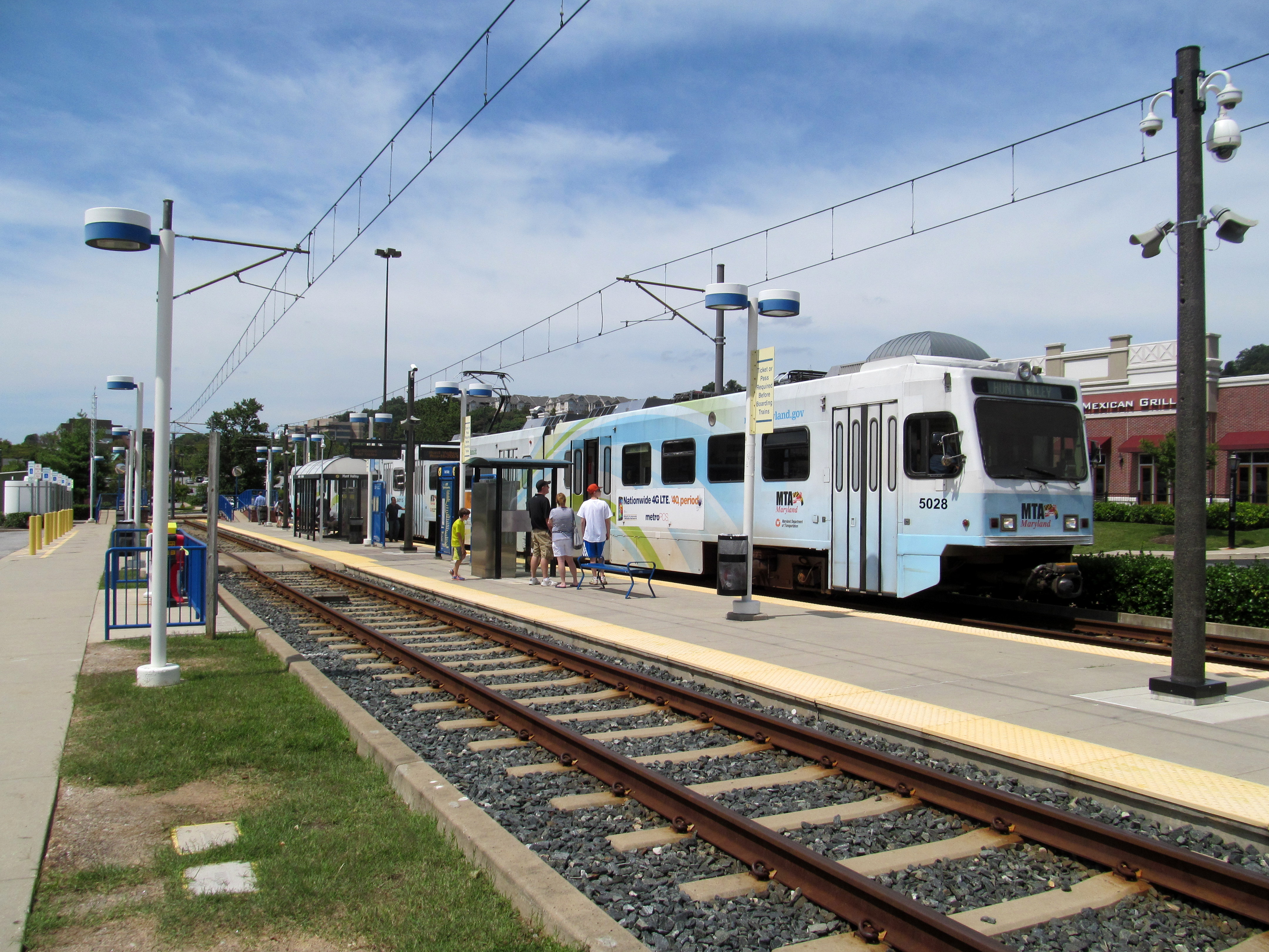 A northbound train arrives at Hunt Valley station in August 2014